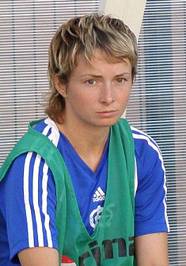 Elena Terekhova as a player of FC Energiya Voronezh